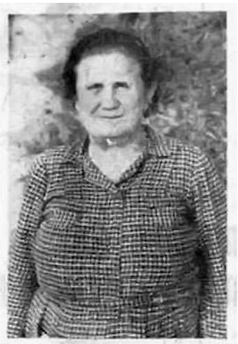 Mara Petrović, a participant in World War I